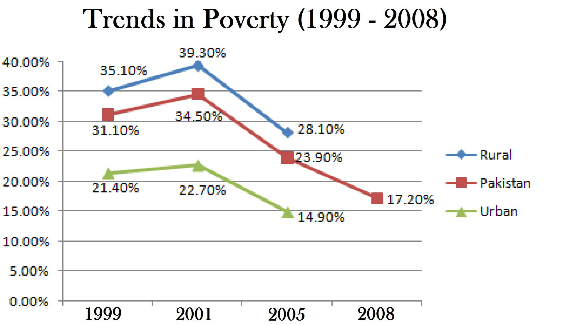 The decrease in poverty in Pakistan, witnessed during Musharraf's Era. However, the poverty rate since then has gone up again.